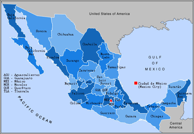 this image is based on the one found at